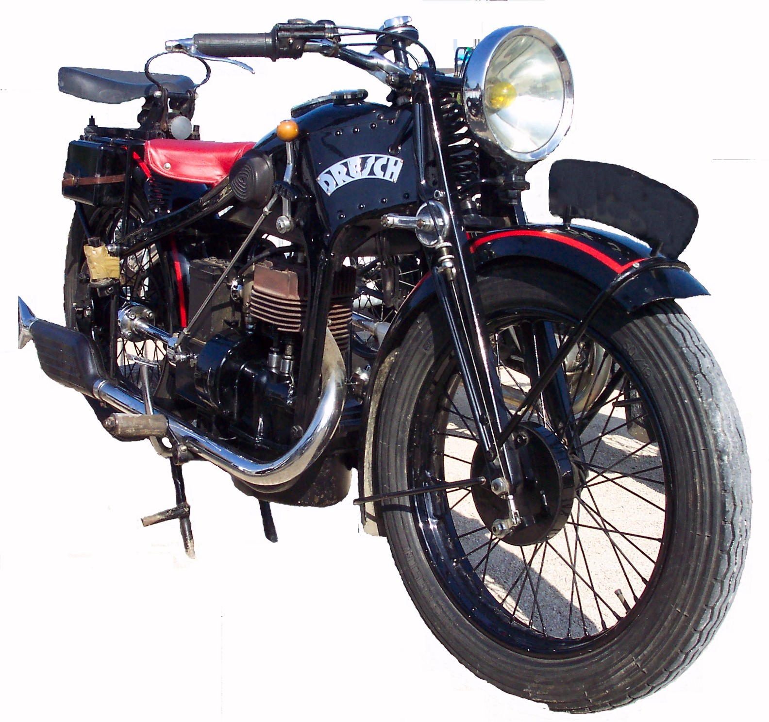 Dresch National 350, side valves